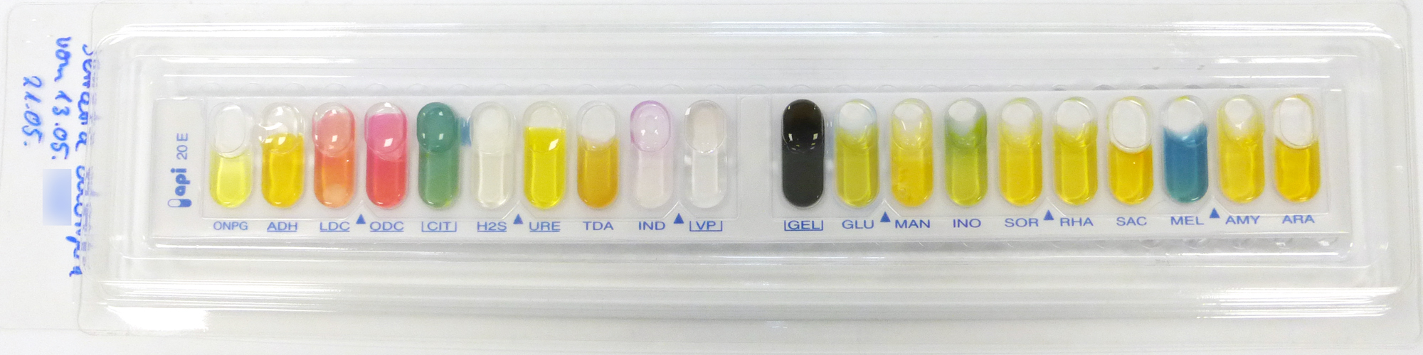 API® 20E test strip, a standardized and miniaturized testing system for fast identification, version of existing techniques in small wells, inoculated with Serratia odorifera, incubated for 1 day, numerical profile is 5346773.